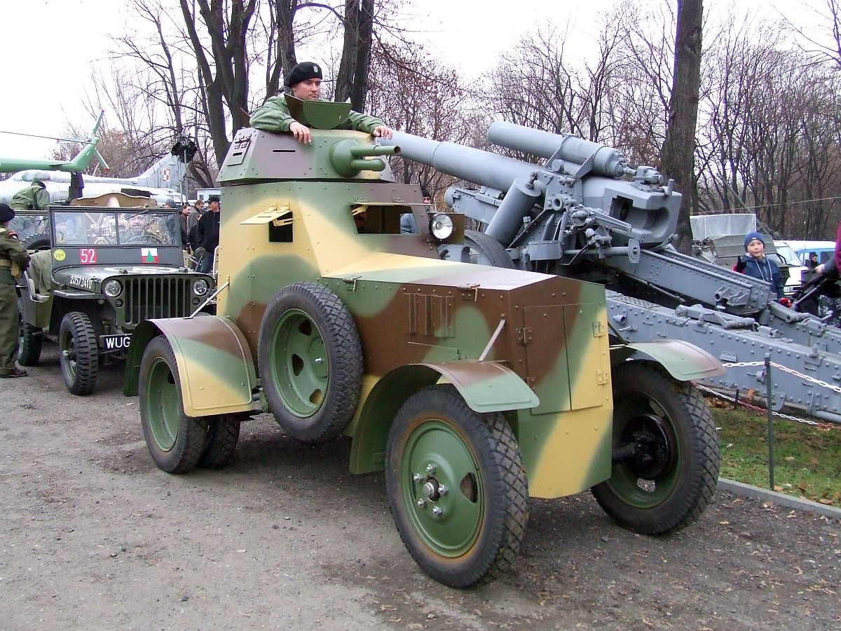 Replica of the Polish wz.34 armoured car